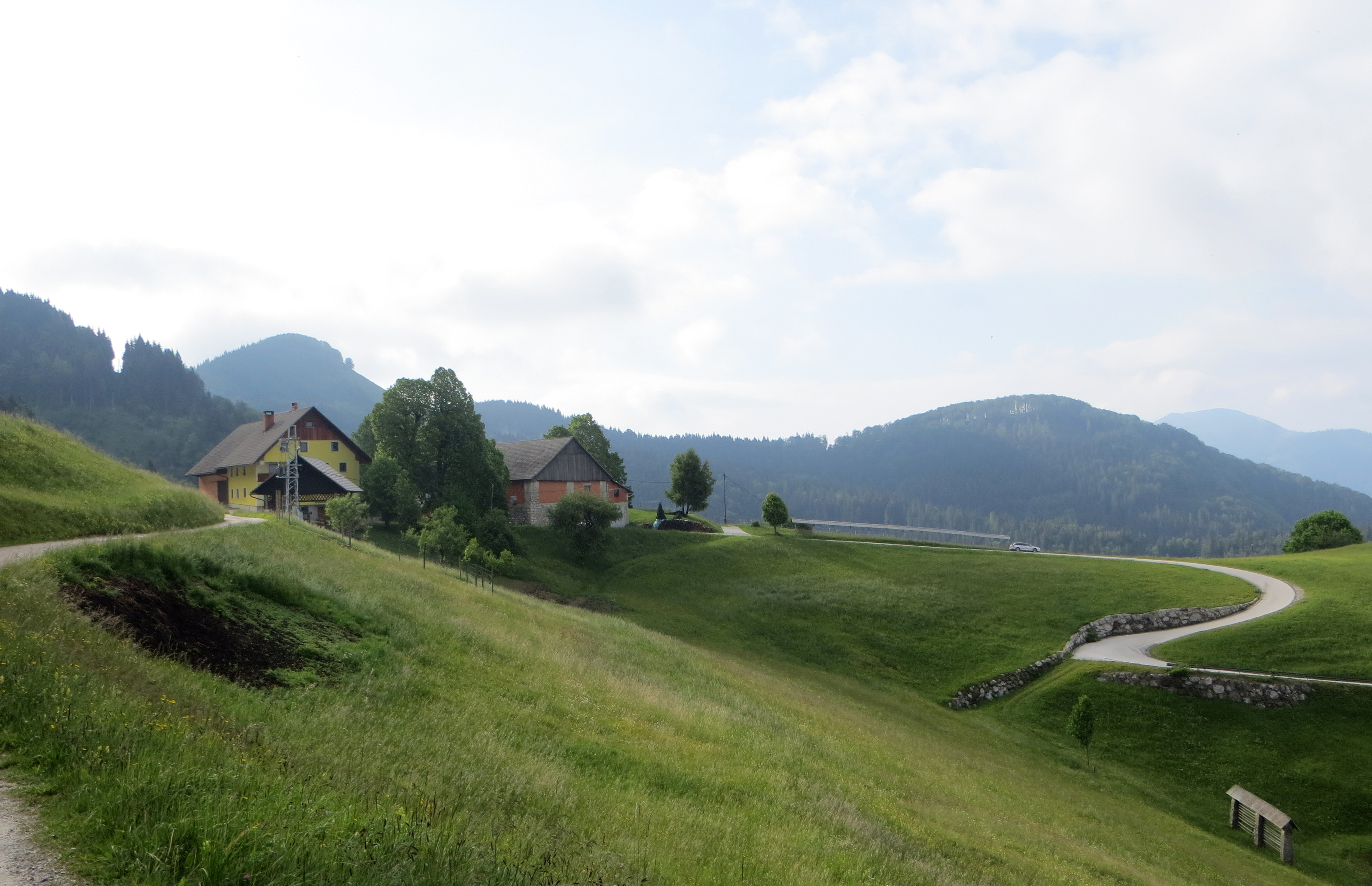 Torka, Municipality of Železniki, Slovenia